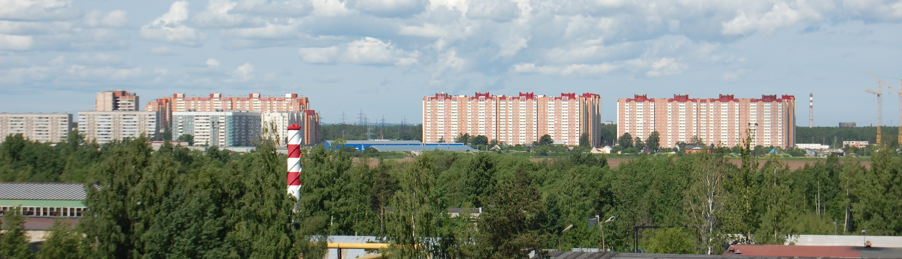 The historical district Gorelovo in Saint Petersburg, Russia